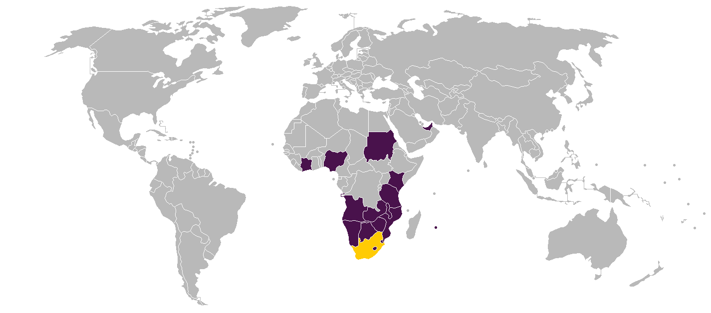 List of countries with South Africa's Steers Franchises